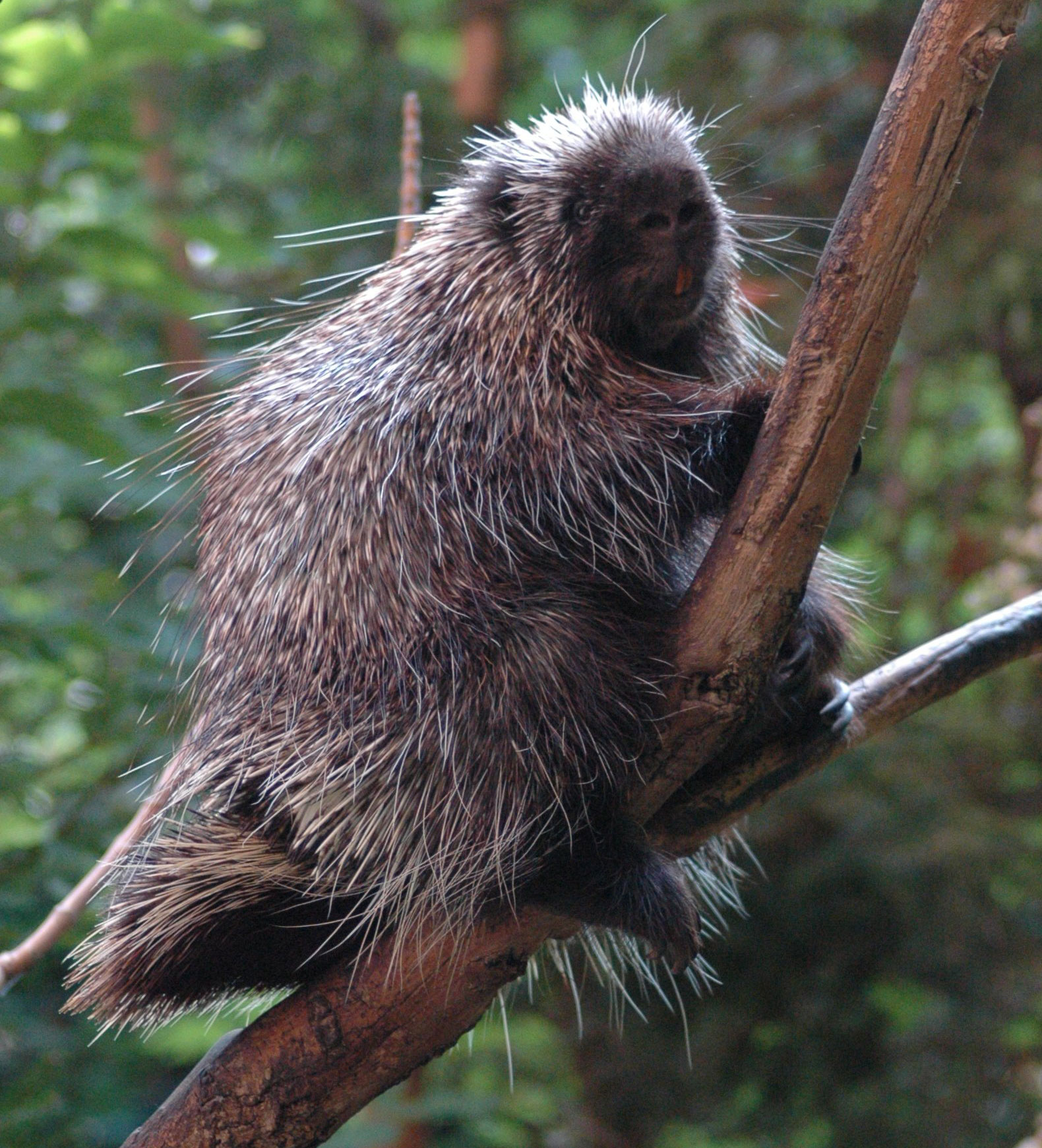 A North American porcupine (Erethizon dorsatum) rests in a tree in Montreal's BioDome. The original image has been cropped.